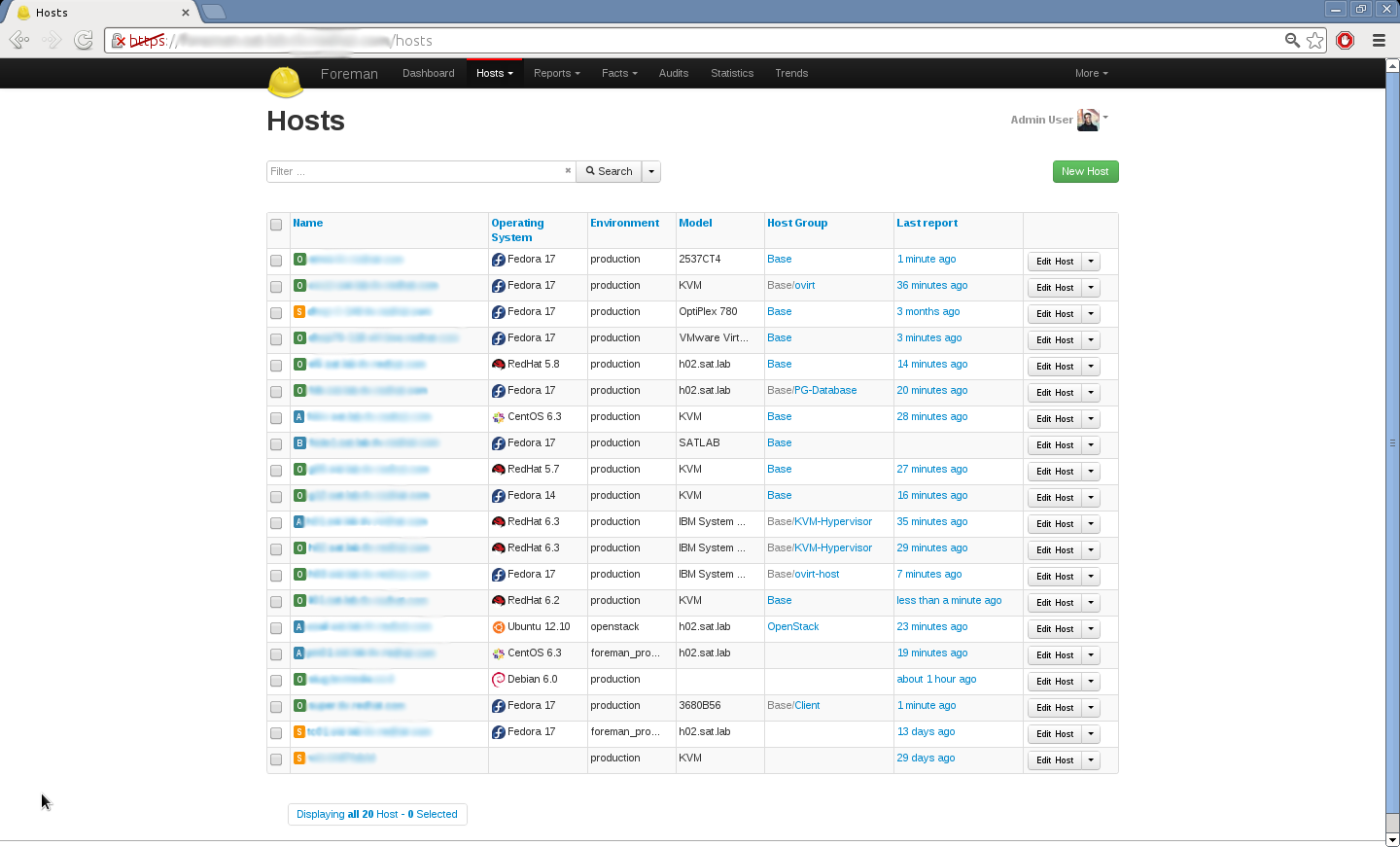 The Foreman screnshot of hosts